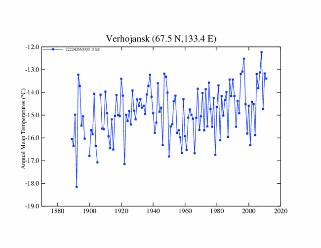 Climate graph of 1888 2012 air average temperaturas of Verhojansk